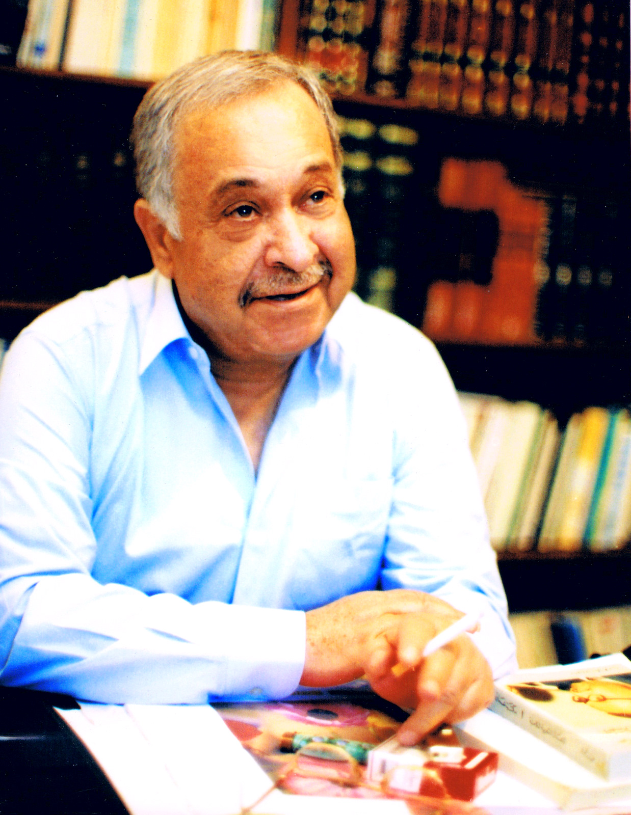 Jordanian Poet Haider Mahmoud